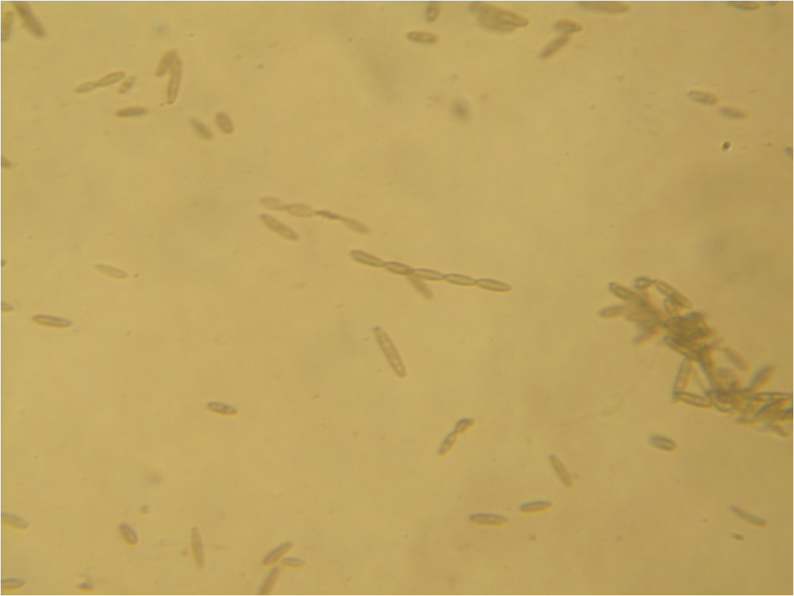 Oidium (teleomorph Erysiphe penicillata) spores magnified 160X. Identified using Barnett, H. L. & Hunter, B. B. (1998) Illustrated Genera of Imperfect Fungi. APS Press: St. Paul, MN; pp. 110–1 ISBN 0-89054-192-2 and Hanlin, R. T. (2001) Illustrated Genera of Ascomycetes, Volume I. APS Press: St. Paul, MN; pp. 28–29 ISBN 0-89054-107-8. Recovered from Bigtooth maple (Acer saccharum Marsh. subsp. grandidentatum (Nutt. ex. Torr. & A. Gray) Y. Desmarias). Host status confirmed using Farr, D. F., Bills, G. F., Chamuris, G. P., & Rossman, A. Y. (1995) Fungi on Plants and Plant Products in the United States. APS Press: St. Paul, MN; pp. 9–17 ISBN 0-89054-099-3.